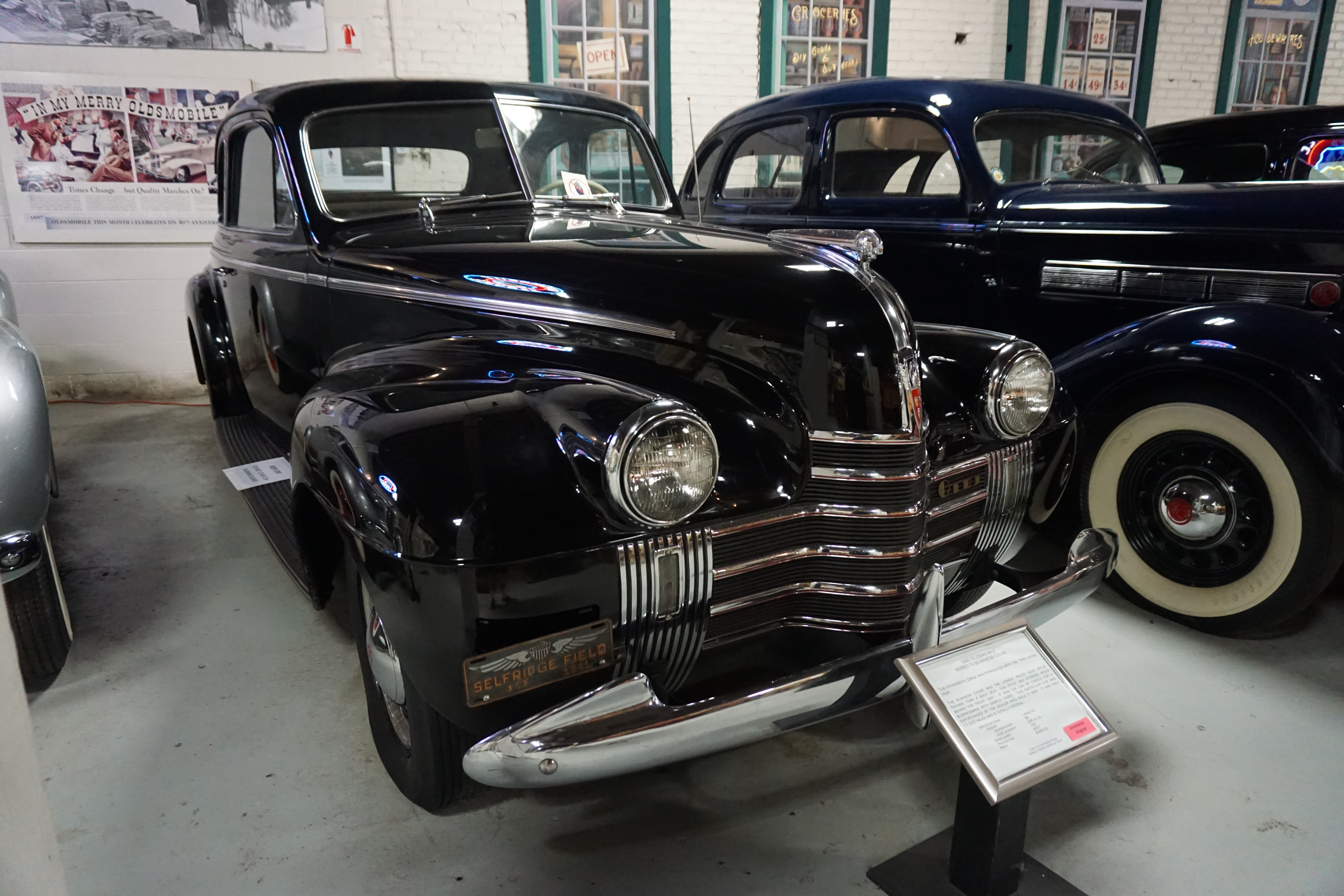 A 1940 Oldsmobile Series 70 Business Coupe at the R. E. Olds Transportation Museum in Lansing, Michigan (United States).